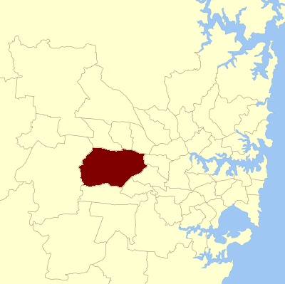 Location of the New South Wales Legislative Assembly electoral district within Sydney in New South Wales. Reference: [1]